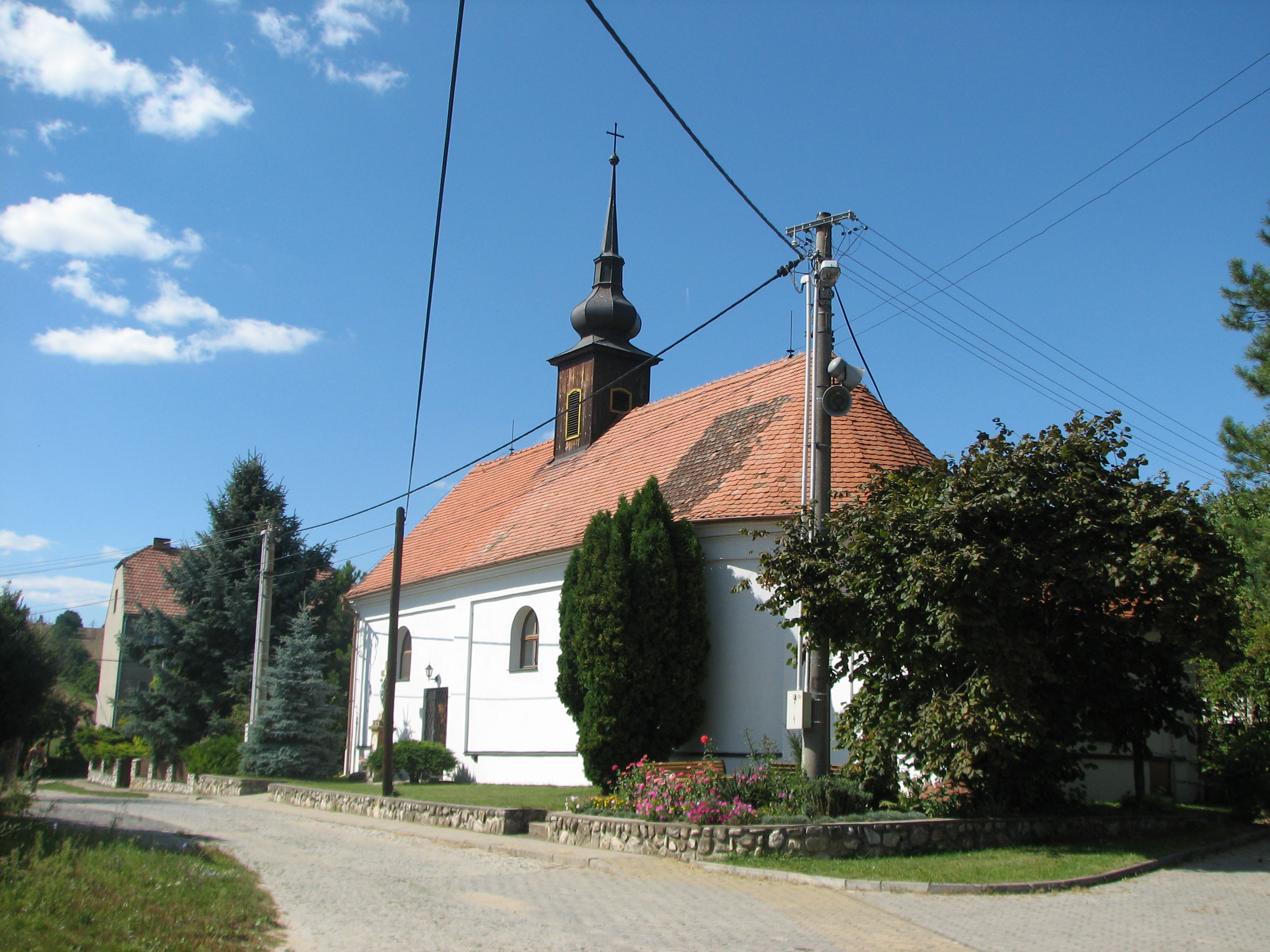 Saint Florian chapel in Stavěšice, Hodonín District, Czech Republic